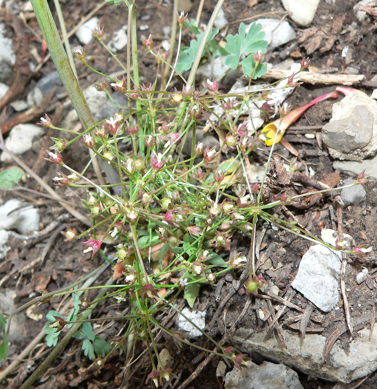 Androsace septentrionalis subsp. subumbellata in avalanche chute left of the South Loop trail where it ascends out of the chute, Kyle Canyon, Spring Mountains, southern Nevada (elev. about 2700 m)